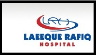 lr logo